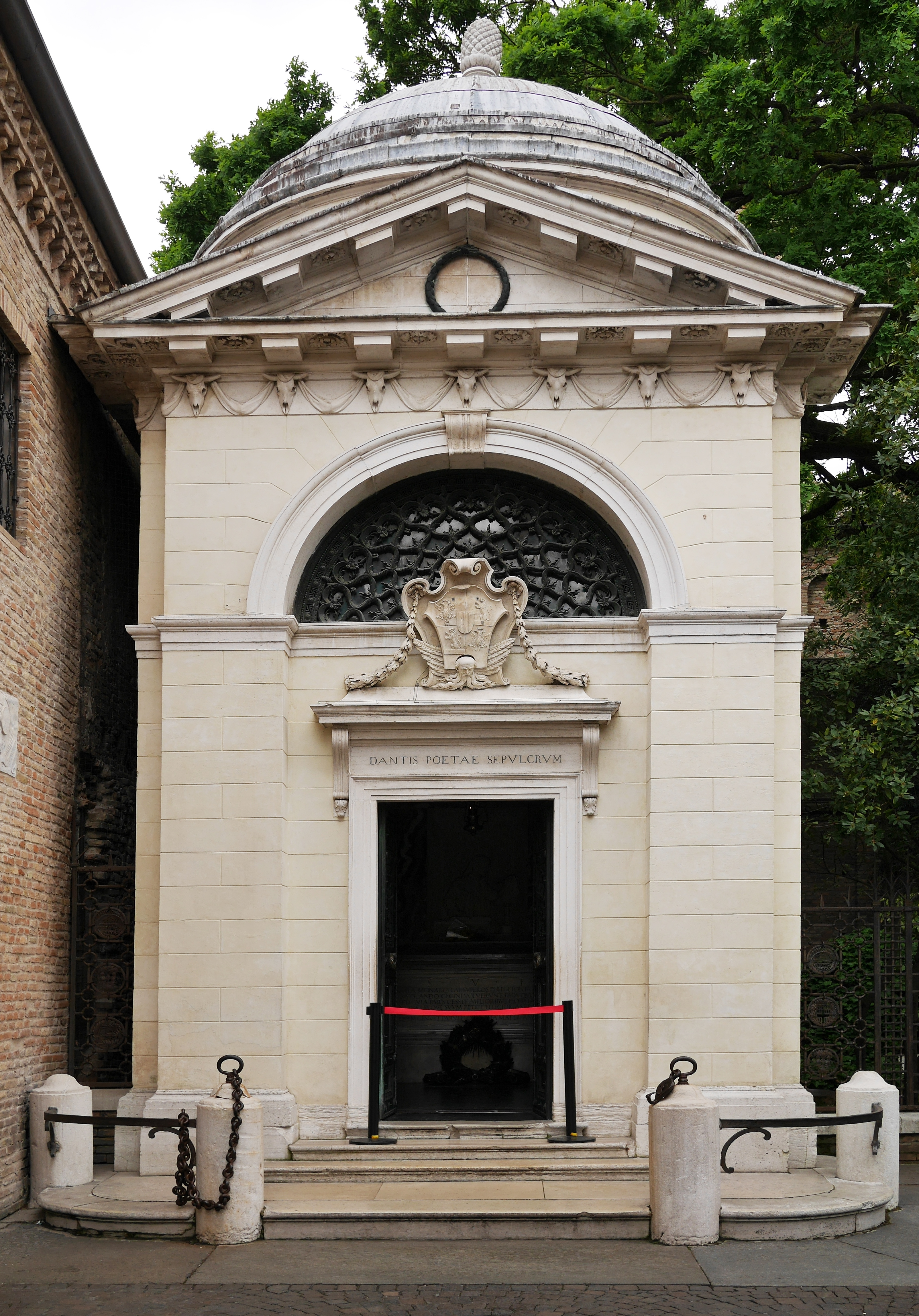 Dante Alieghri tomb in Ravenna (exterior)